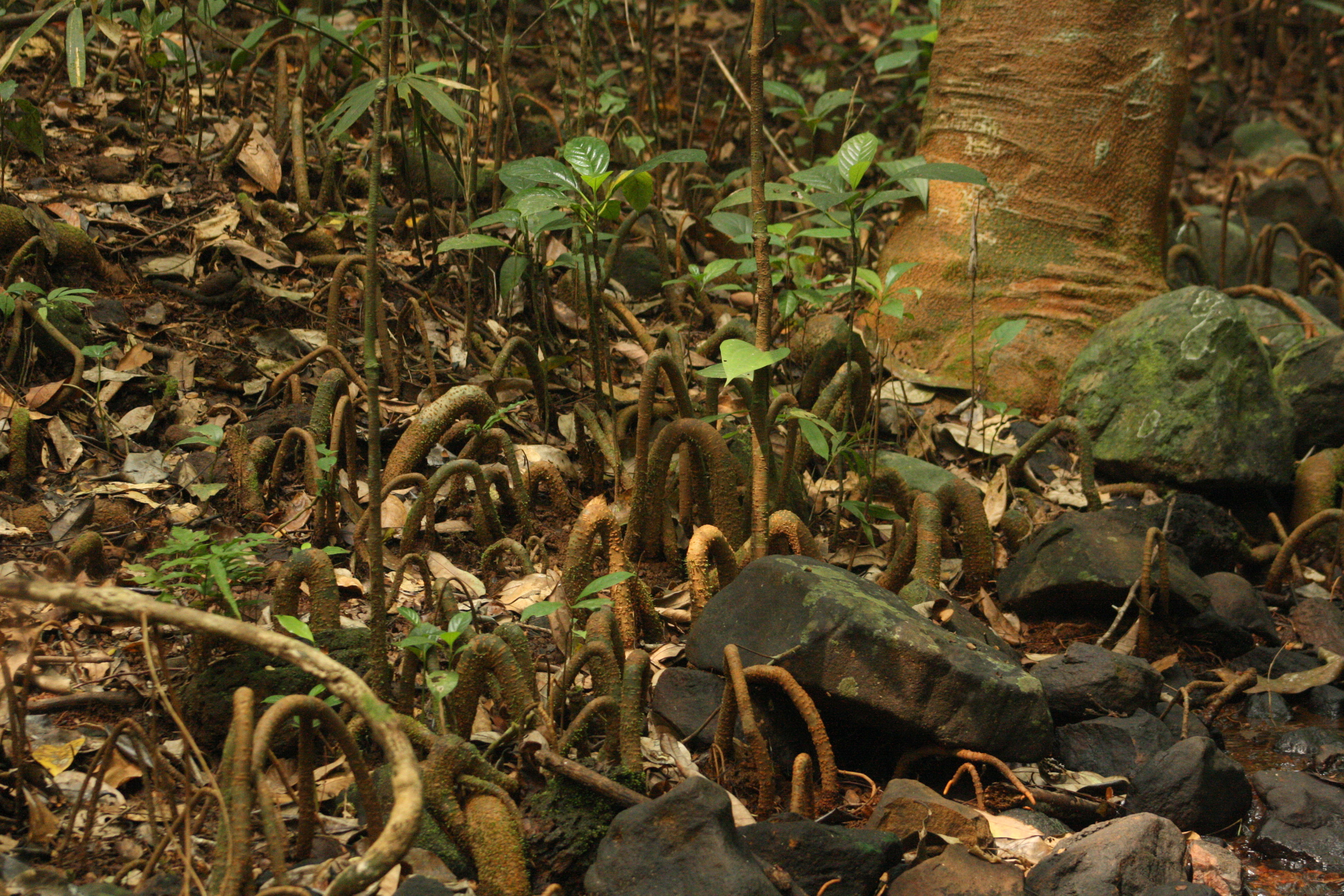 Knee roots of Myristica magnifica are seen in the myristica swamp of Kammadam Kaavu.